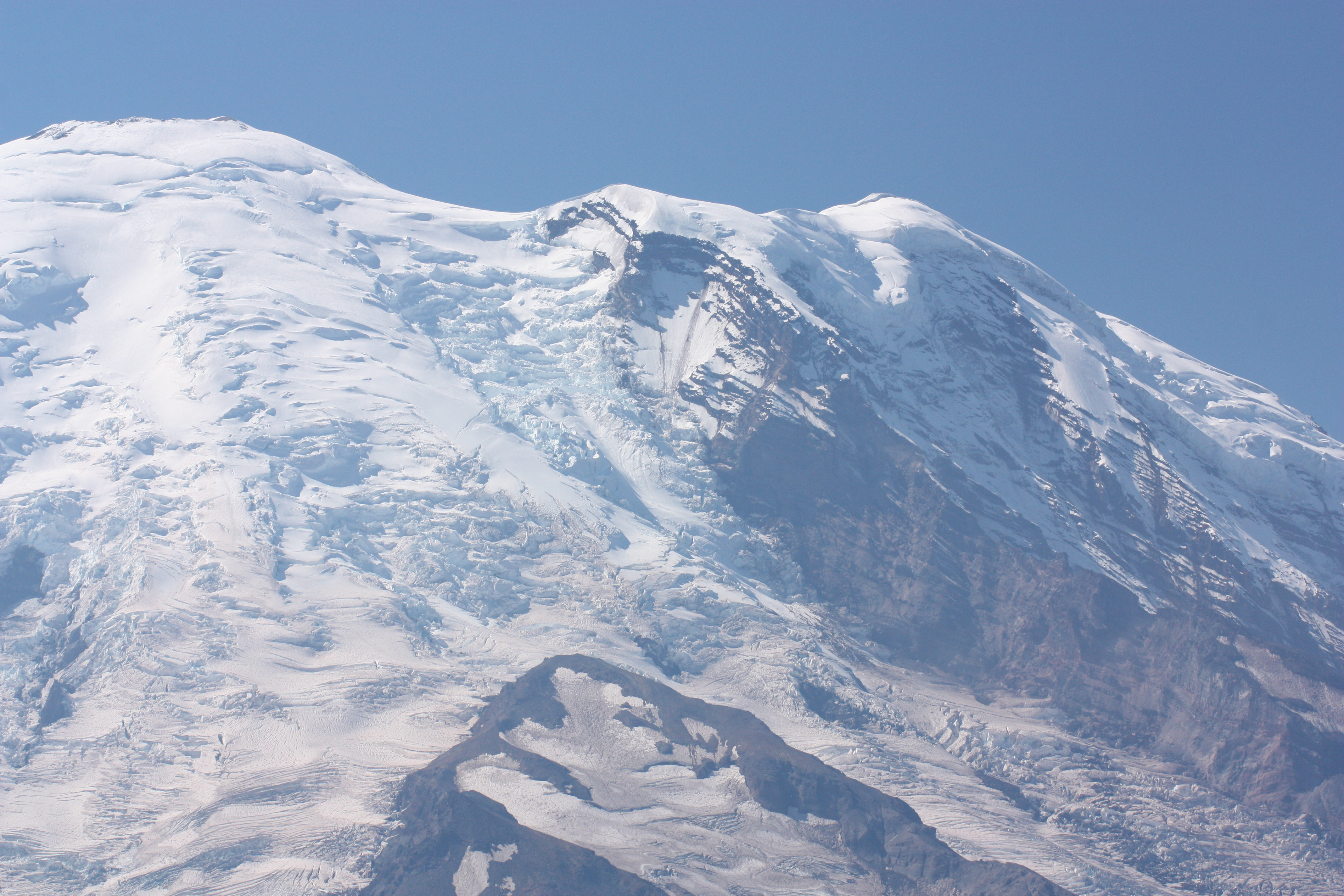 Mount Rainier (14,411 ft, 4392 m); Steamboat Prow (9720+ ft, 2963+ m, below center); Emmons Glacier (left); Winthop Glacier (right of Steamboat Prow); Curtis Ridge (behind Winthrop Glacier Viewpoint location: Dege Peak Spur Trail, Mount Rainier National Park Viewpoint elevation: 2117 meter (6945 ft) View direction: 242° Location source: Garmin GPSmap 60CSx Location Datum: WGS84